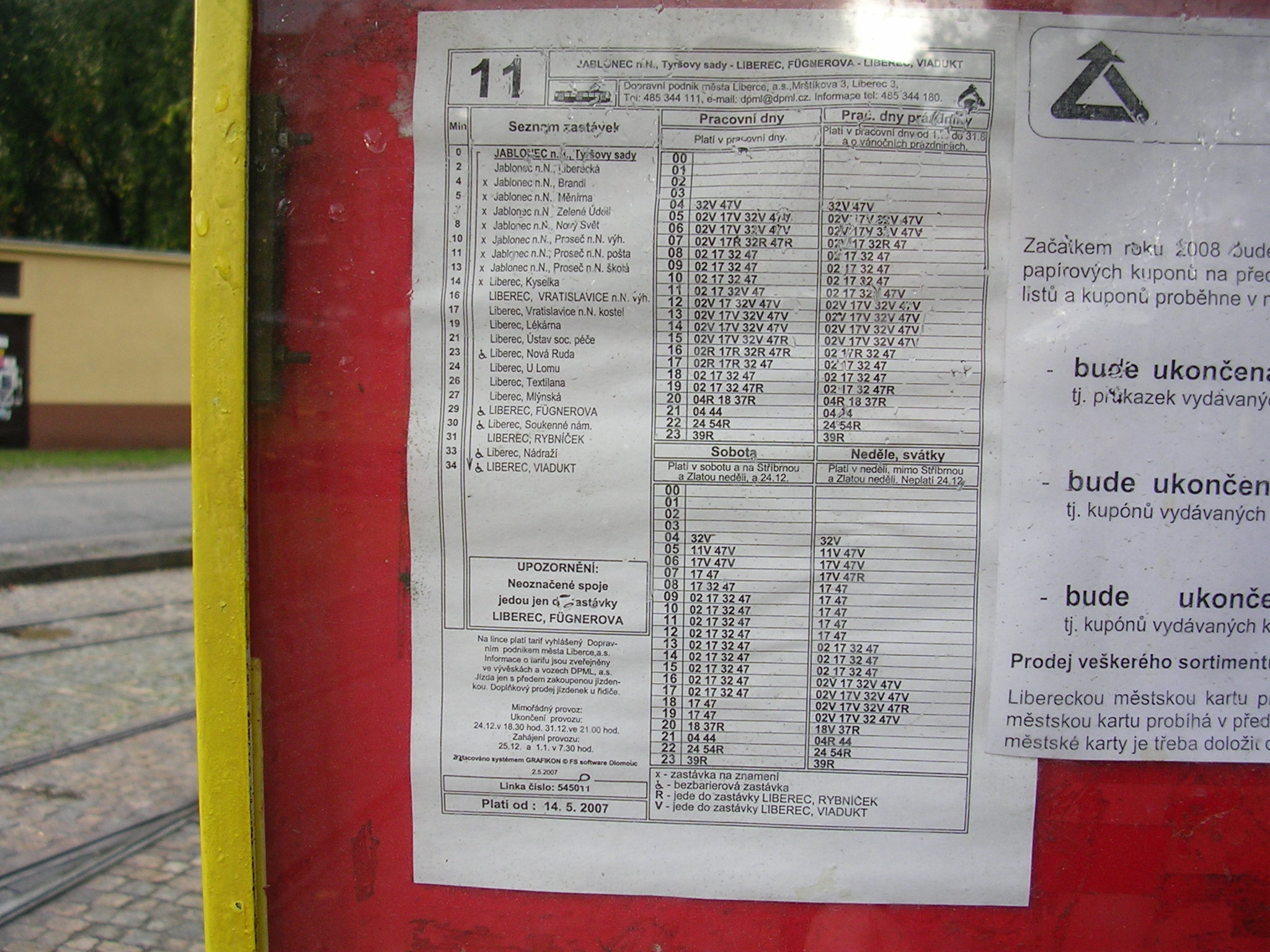 Tramway line between Liberec and Jablonec, Czech Republic. "Jablonec nad Nisou, Tyršovy sady", schedule.